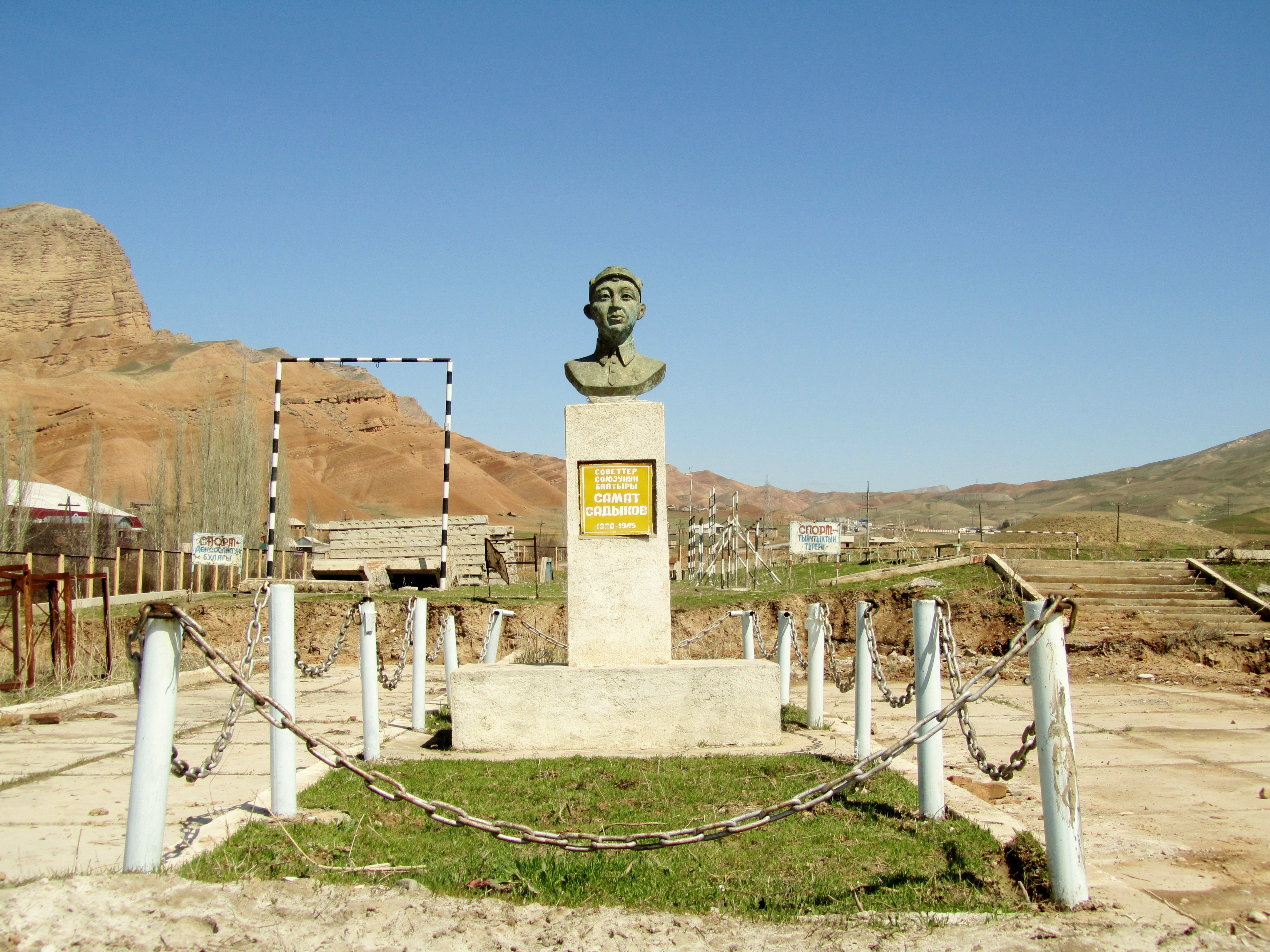 The bust of Samat Sadykov in front of the new unfinished building of the school which bears his name. Leilek District, Kyrgyzstan.